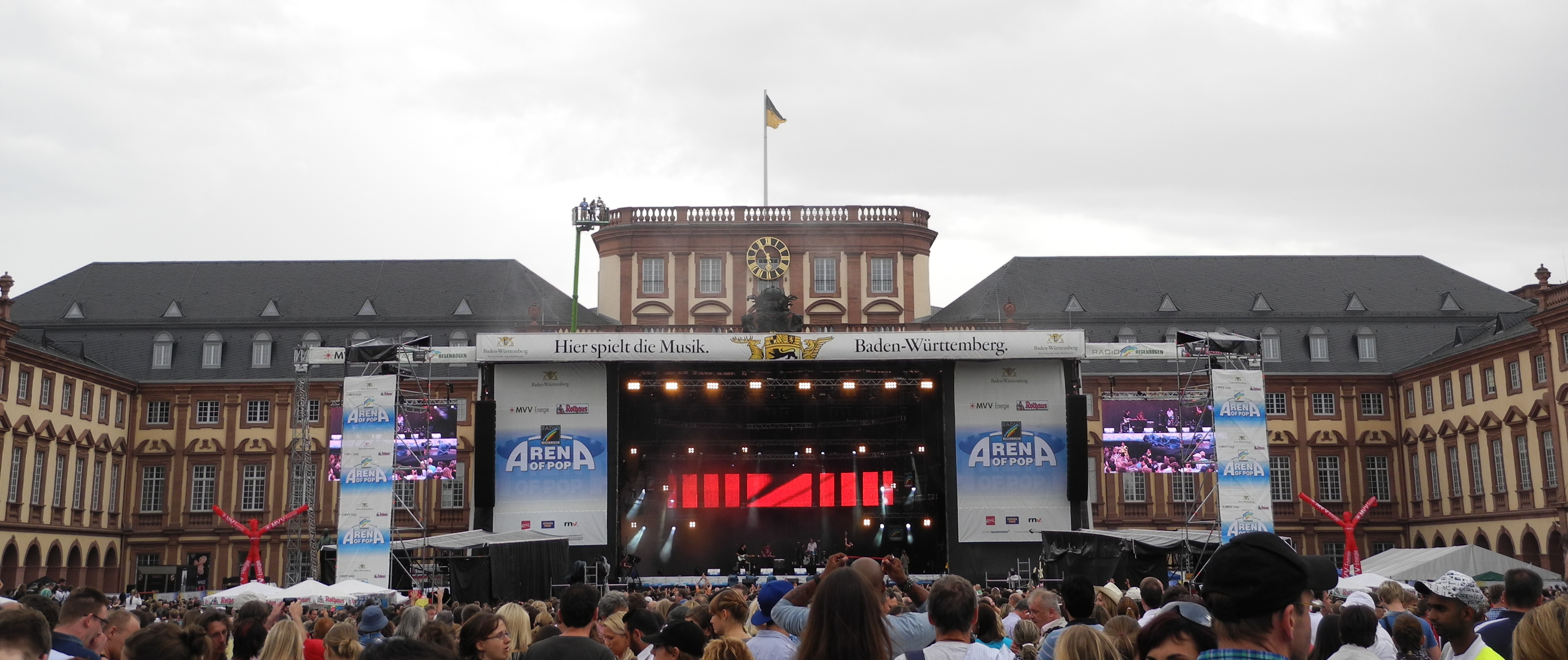 Arena of Pop 2011, Mannheim, view to the courtyard of Mannheim castle with stage